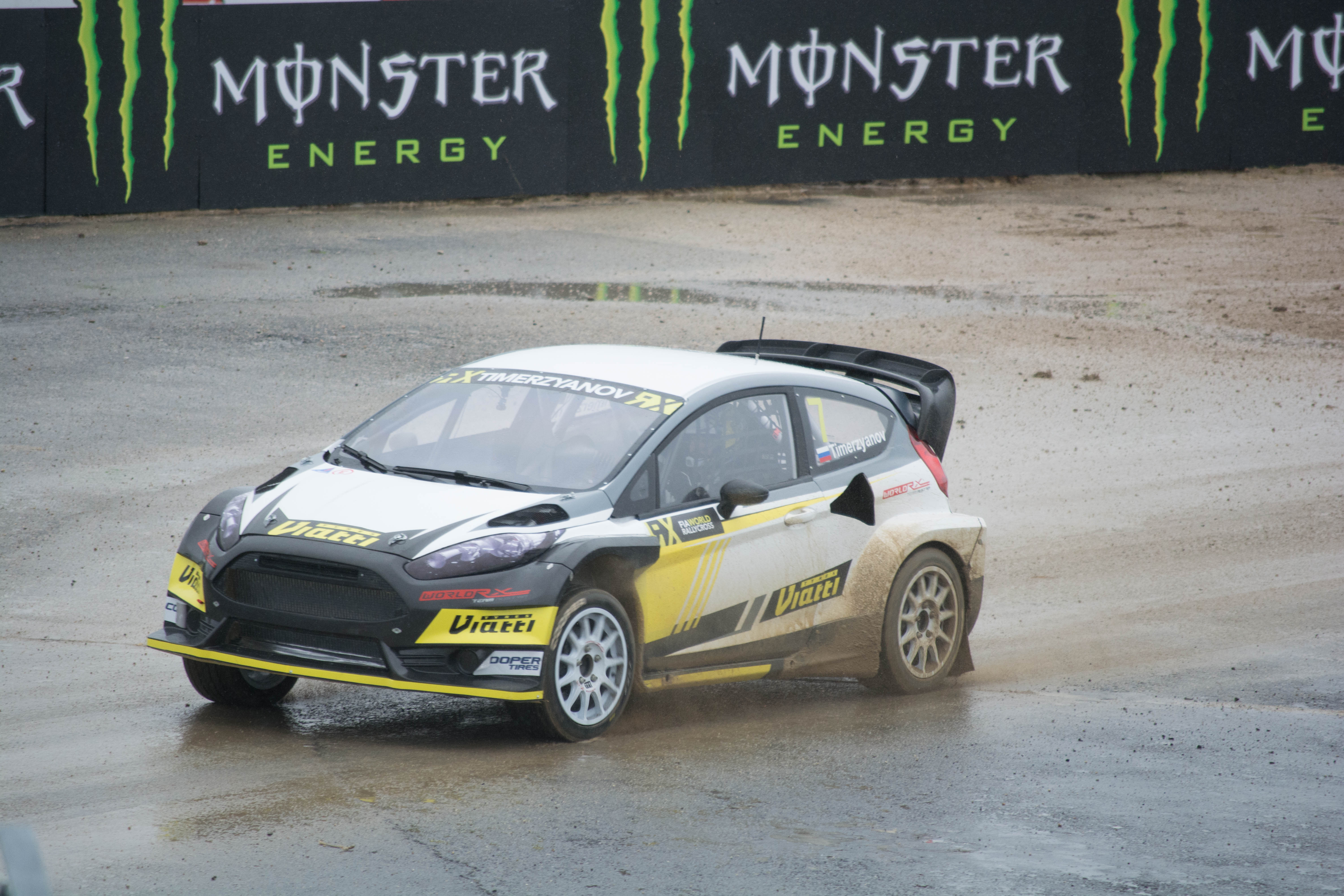 Portugal Montalegre 2016